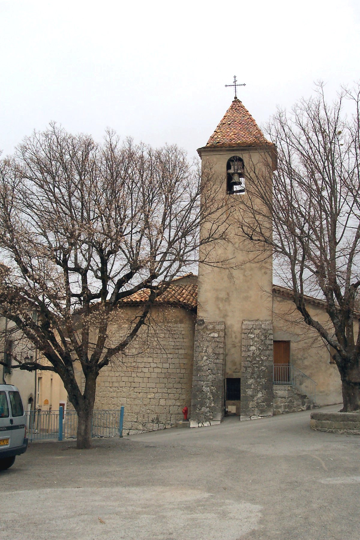 The church